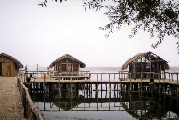 A close view, image from the Exhibition of Prehistoric Finds, Dispilio, West Macedonia, Greece